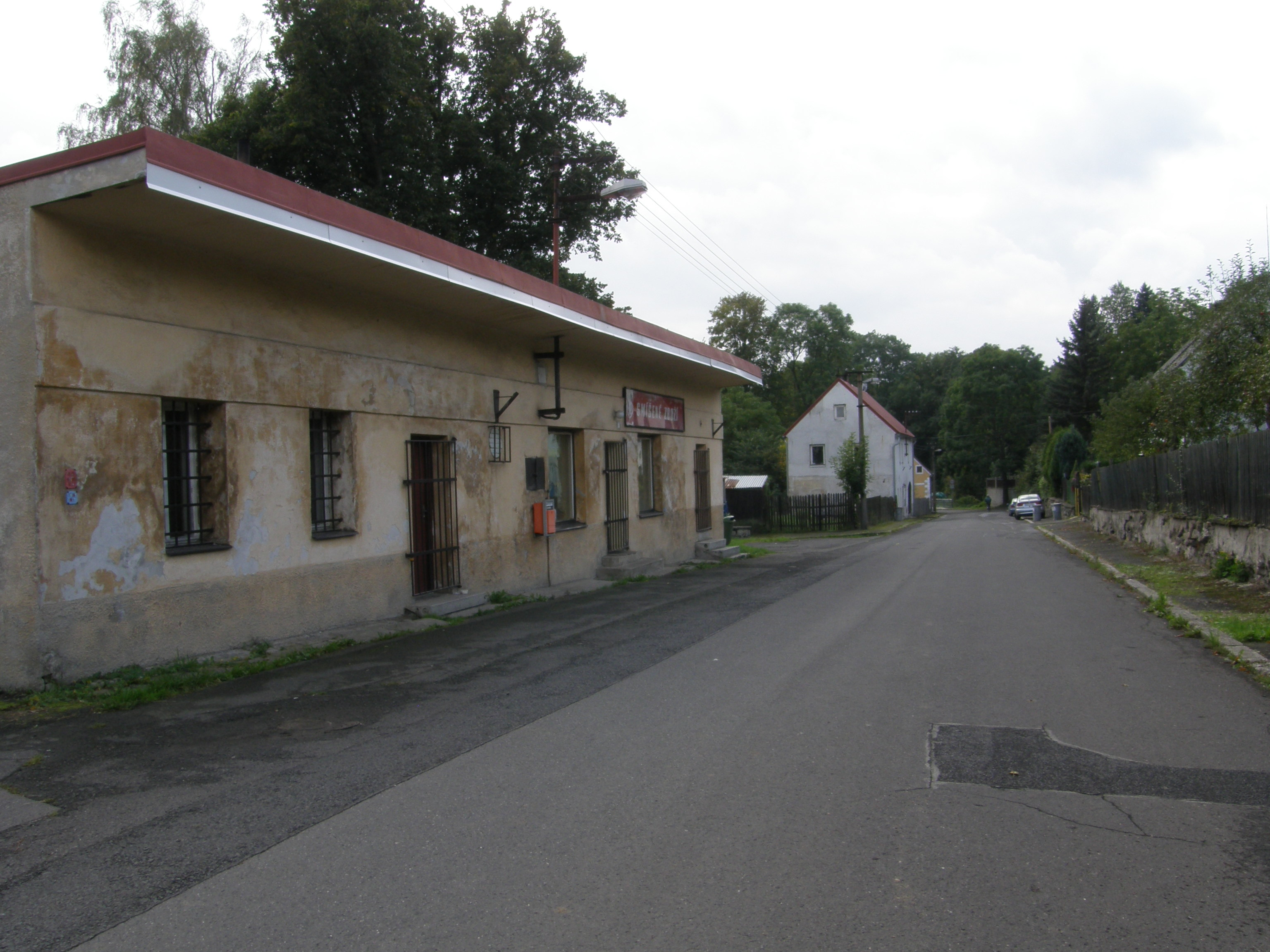 former shop in the village